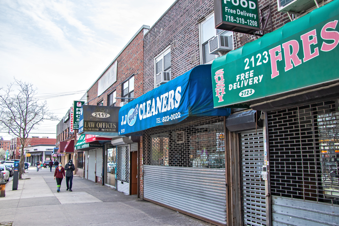 Closed retailers along Williamsbridge Road in Morris Park, The Bronx during the COVID-19 pandemic.